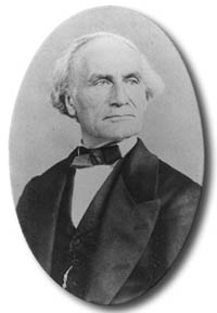 Roberthoudin (illusionist)